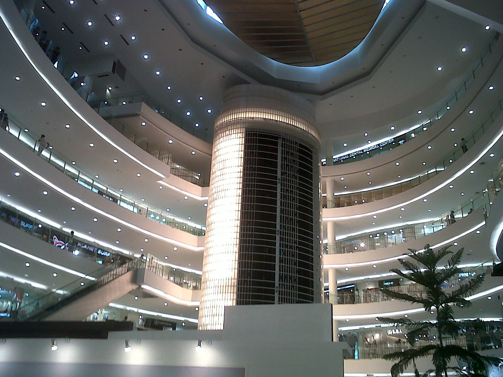 Senayan City, a shopping mall in Jakarta